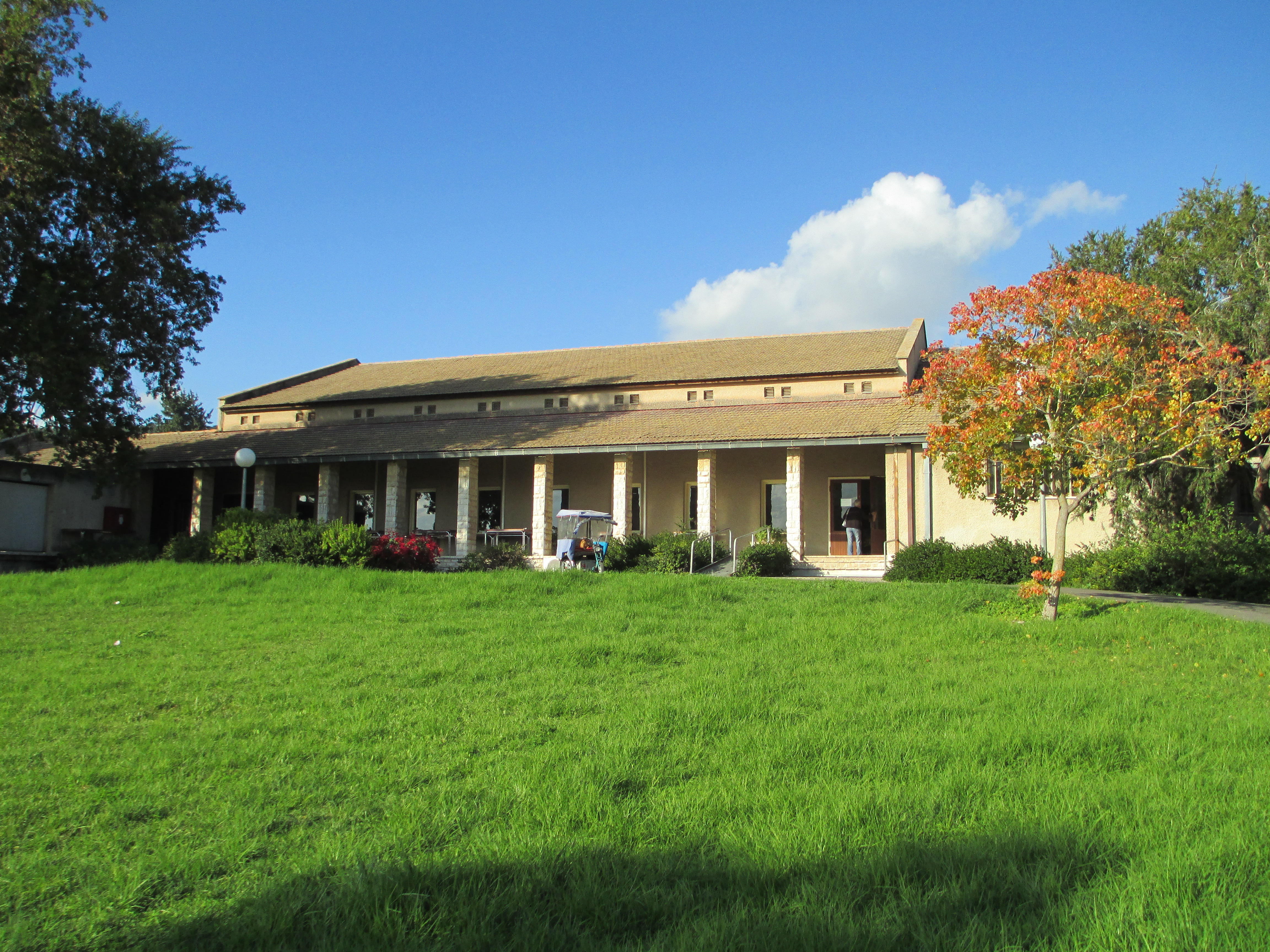 Kibbutz Ginegar-dining room